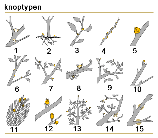 Now with numbers. In botany, a bud is an undeveloped or embryonic shoot and normally occurs in the axil of a leaf or at the tip of the stem. Once formed, a bud may remain for some time in a dormant condition, or it may form a shoot immediately.